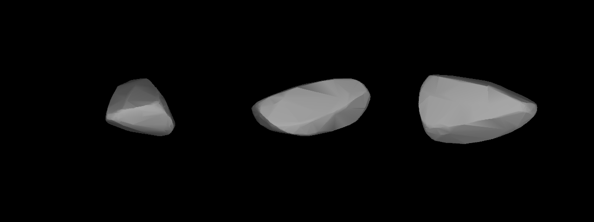 A three-dimensional model of 5281 Lindstrom that was computed using light curve inversion techniques.